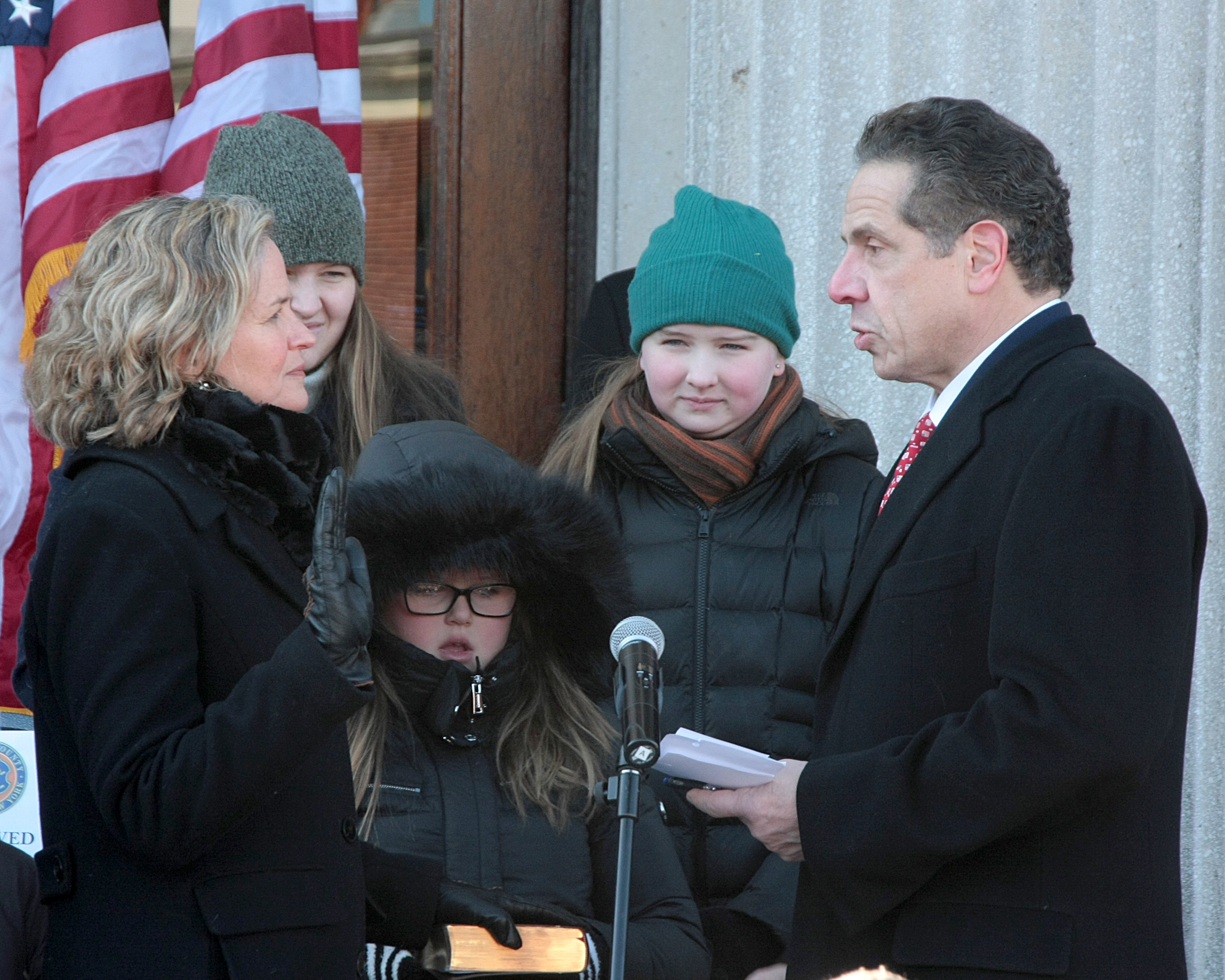 Laura Curran inauguration